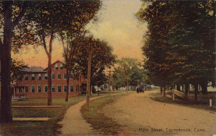 View of Main Street in Centerbrook, Connecticut, a part of the town of Essex, Connecticut; store Web page states: "printed postcard showing a view along Main Street in Centerbrook, Connecticut. Mailed in 1910. Pub. by The Rotograph Co. 62278. Printed in Germany."